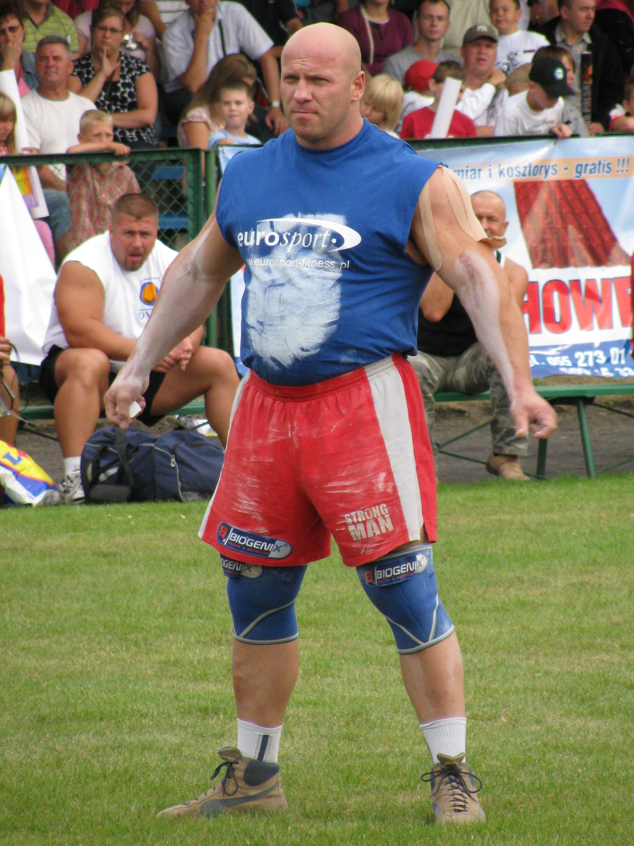 Robert Szczepanski - a strength athlete from Poland